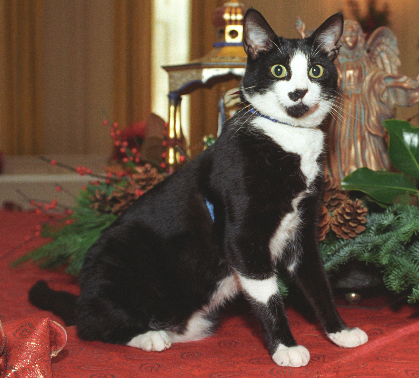 Title: Photograph of Socks the Cat Standing Alongside Christmas Decorations in the White House: 12/05/1993 Creator: President (1993-2001 : Clinton). White House Photograph Office. (01/20/1993 - 01/20/2001) Types of Archival Materials: Photographs and other Graphic Materials Contacts: William J. Clinton Library (NLWJC), 1200 President Clinton Avenue, Little Rock, AR 72201. Phone: 501-244-2877; Fax: 501-244-2881; Production Dates: 12/05/1993 From: Series: Photographs Relating to the Clinton Administration, compiled 01/20/1993 - 01/20/2001 Collection WJC-WHPO: Photographs of the White House Photograph Office (Clinton Administration), 01/20/1993 - 01/20/2001 Persistent URL: Access Restriction(s): Unrestricted Use Restriction(s): Unrestricted